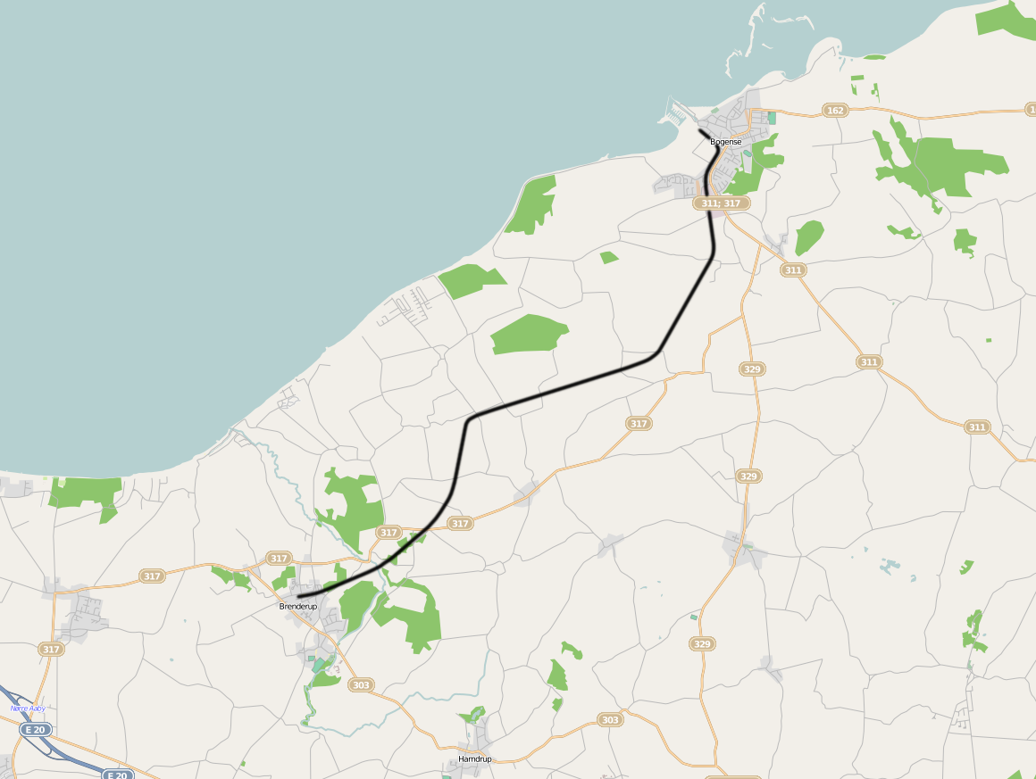 Railway line Brenderup - Bogense